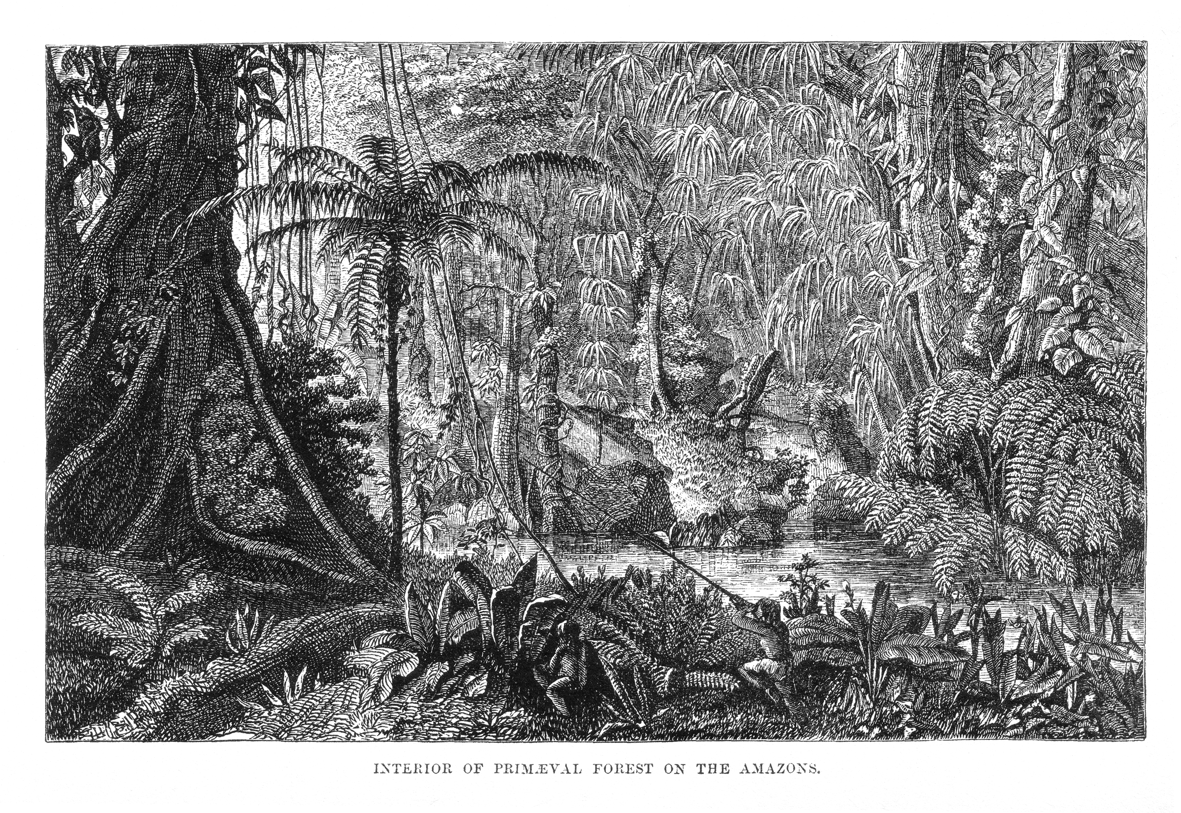 Caption: "INTERIOR OF PRIMÆVAL FOREST ON THE AMAZONS." (rotated 90°)